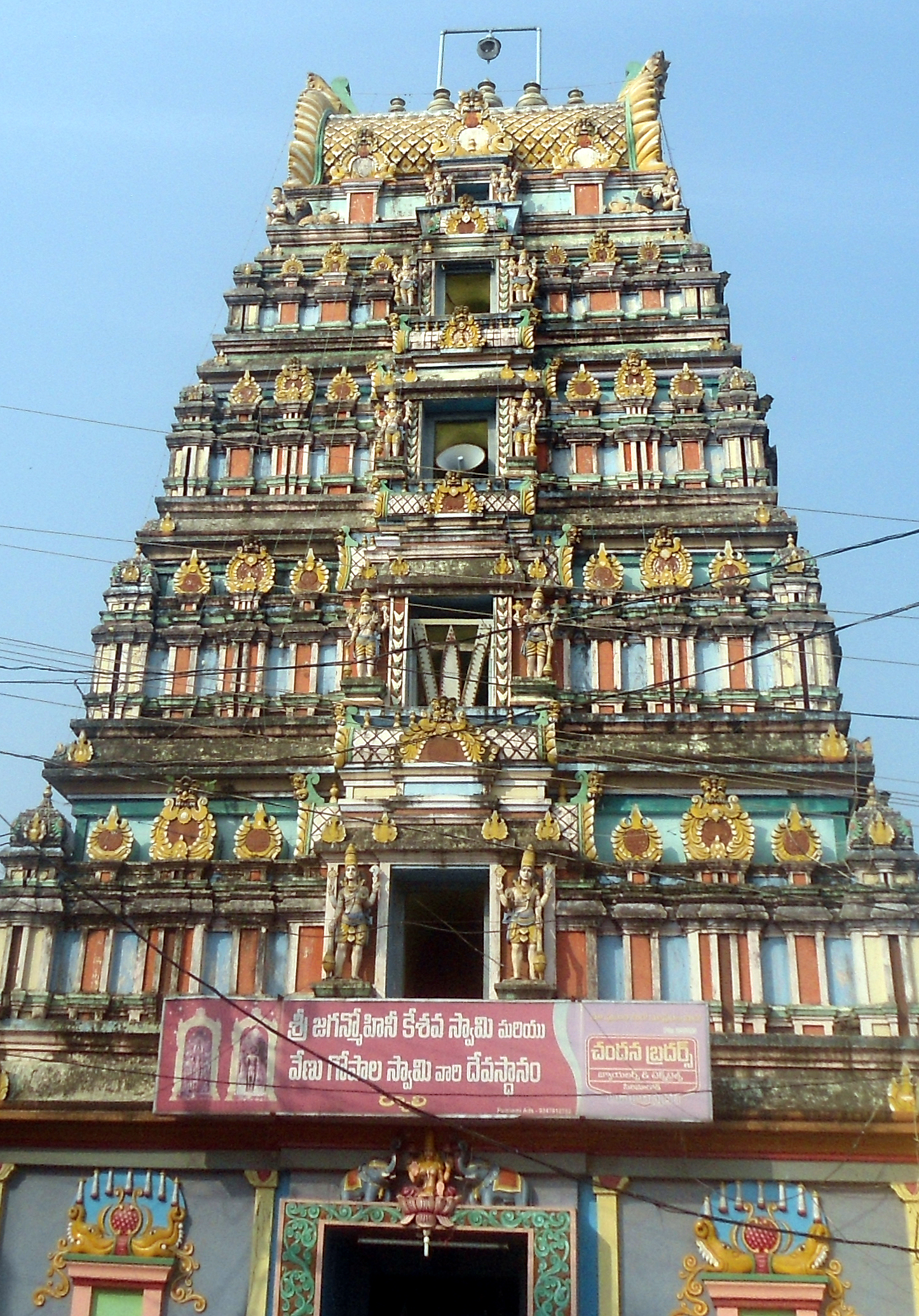 Gopuram of Ryali temple, East Godavari district, Andhra Pradesh